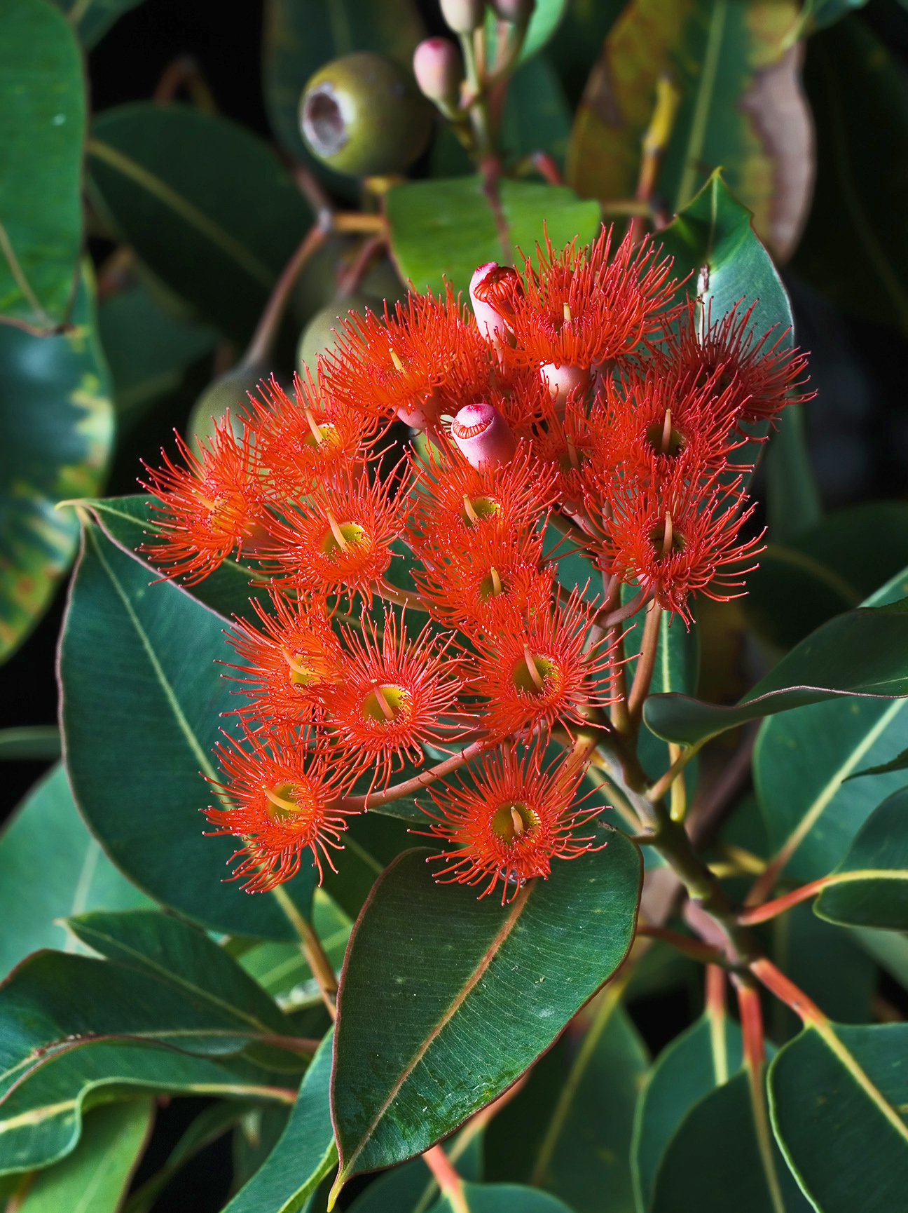 Flowering Corymbia ficifolia, Austins Ferry, Tasmania, Australia